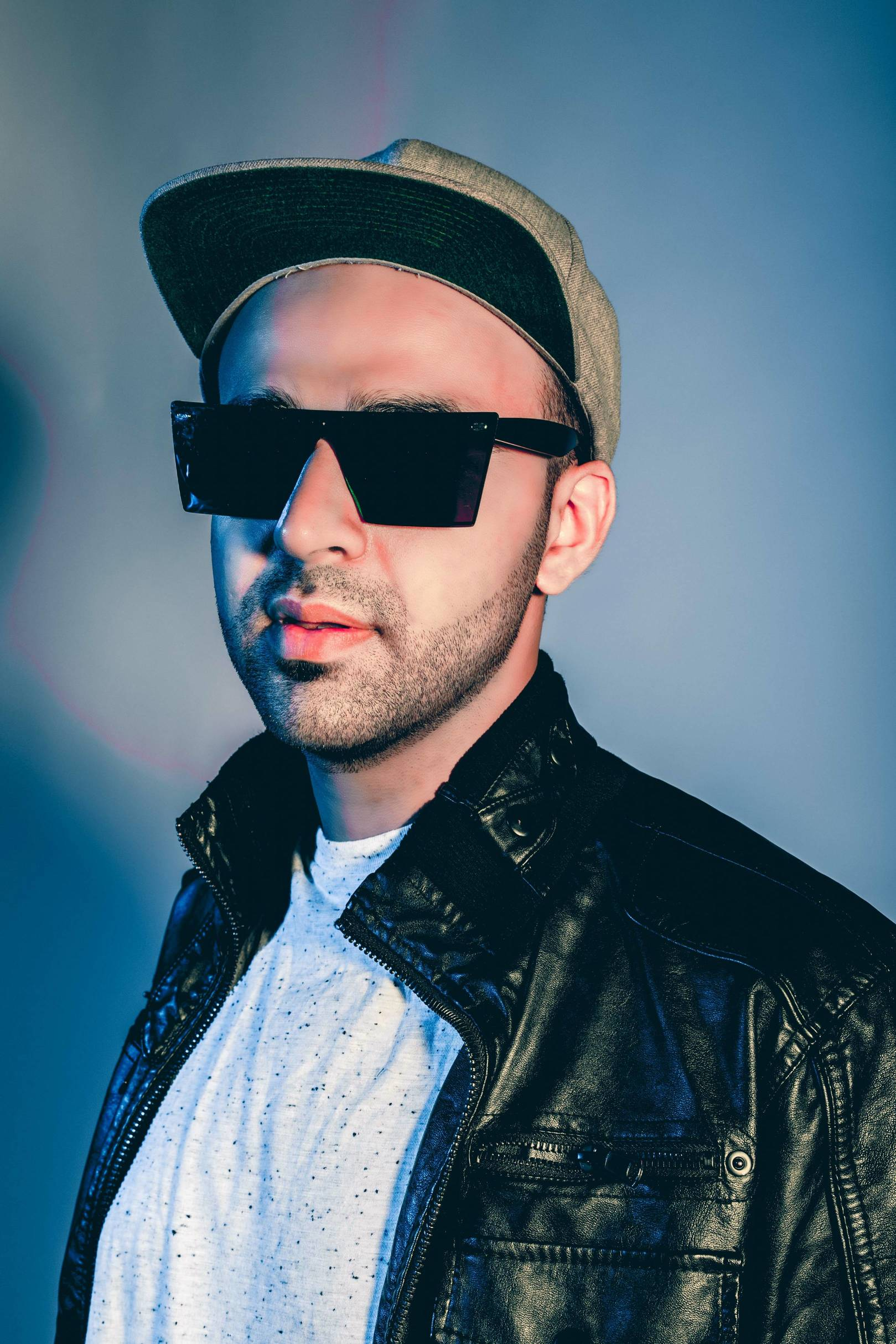 Nikhil Malik is a guitarist, music producer and film composer from Delhi, India.